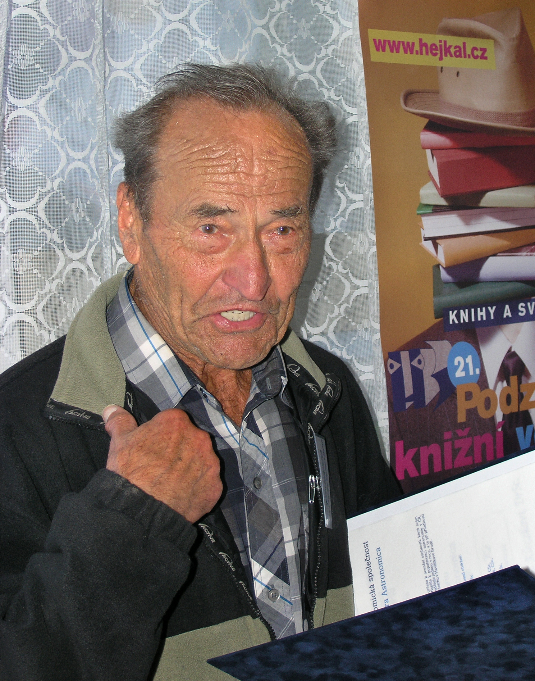 Czech astronomer Josip Kleczek is receiving the Littera Astronomica prize